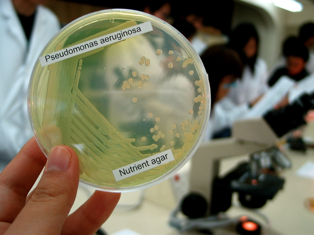 The bacteria Pseudomonas Aeruginosa on a lab plate